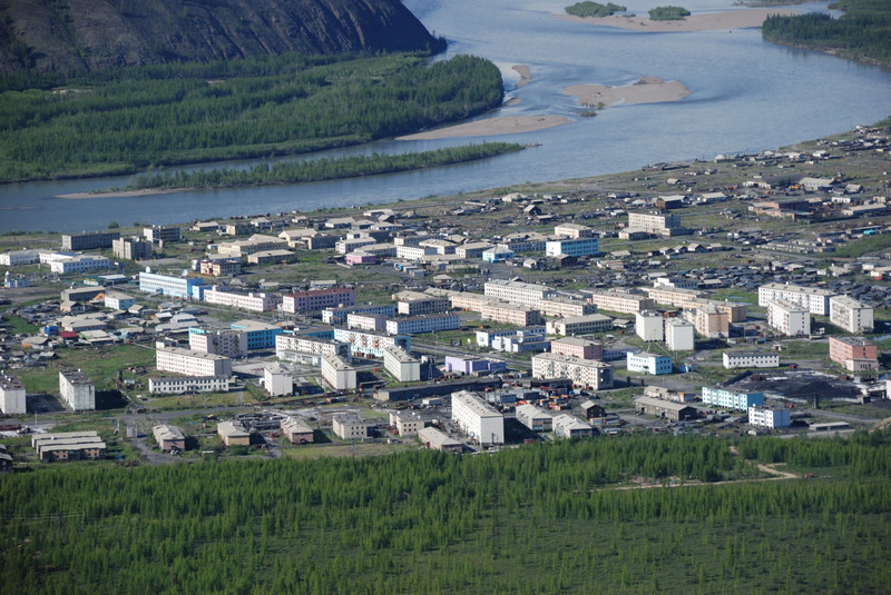 Ust-Nera